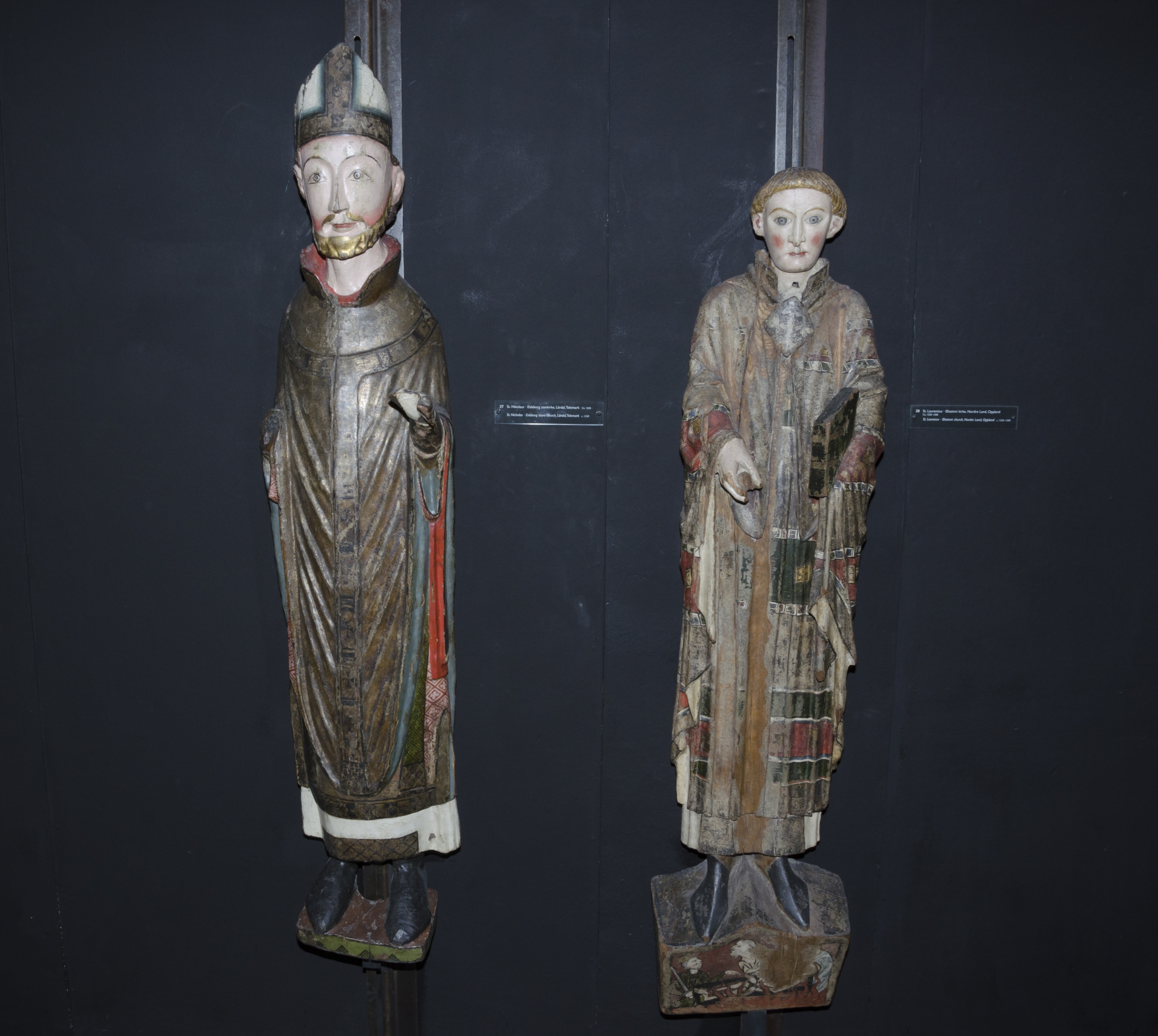 Left: St. Nicholas, Eidsberg stave church, Telemark, Norway, ca. 1250. Right: St. Laurence, Østsinni church, Oppland, Norway, ca. 1250-1300. Now at the Museum of Cultural History.